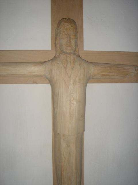 A cross from Mile Prerad in the Saint Blaise Church in Balve